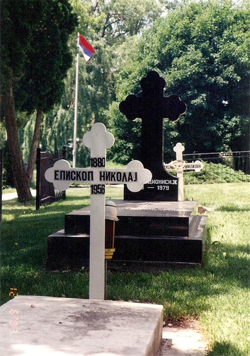 The former grave site of Saint Nikolaj Velimirović (1881–1956) in Libertyville, Illinois. His relics were returned to Lelić, Serbia on 12 May 1991 (this photo was taken in 1993). Behind the grave site are the graves of Bishop Dionisije Milivojević (1898–1979) and Bishop Firmilijan Ocokoljić (1909–1992). This is near the same spot where Metropolitan Christopher Kovacevich (1928–2010) was interred on 24 August 2010.